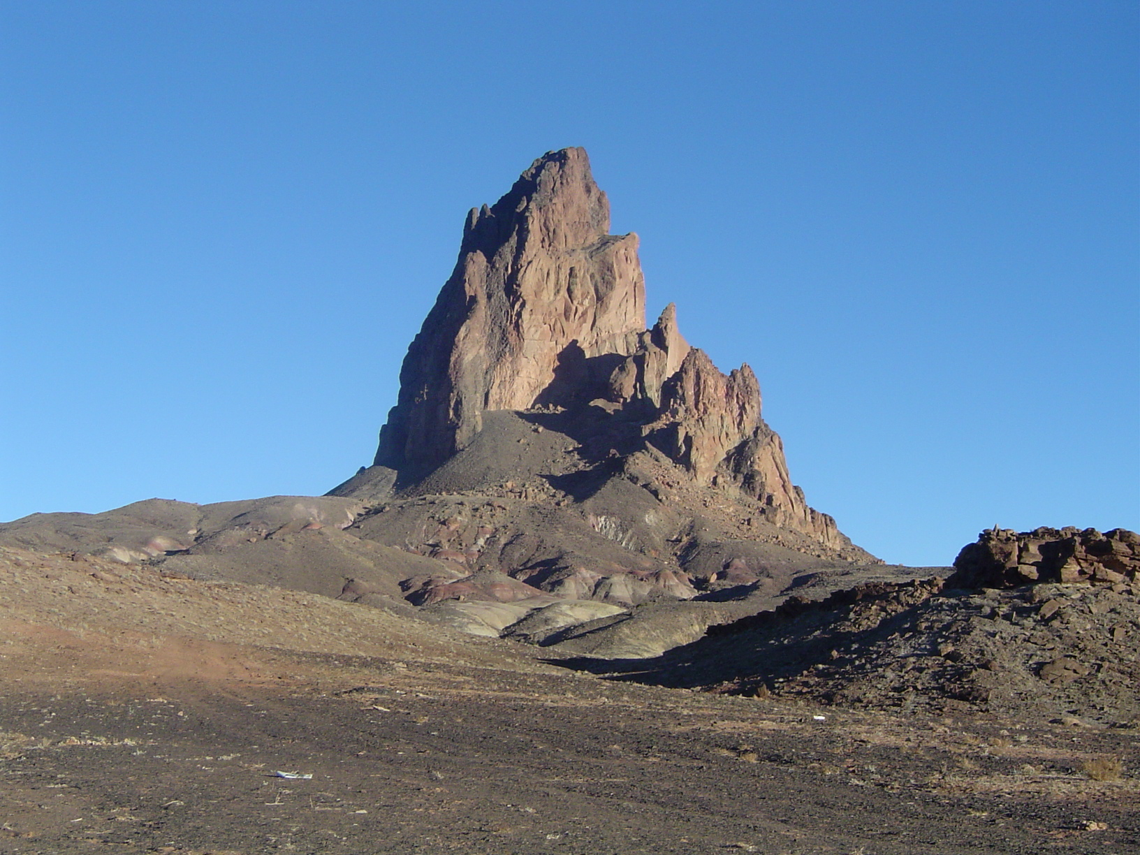 The Agathla Peak 457 m prominence, 7100 ft in Monument Valley, Arizona. Photographed and uploaded by user:Geographer